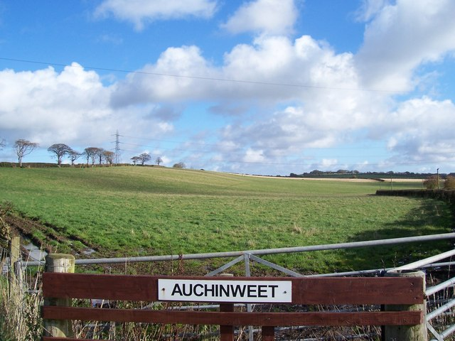 Crash Site Of Lockheed Constellation PH-TEN These fields constitute the crash site of KLM Constellation PH-TEN on 20 October 1948 which killed all forty passengers and crew aboard. Further details at